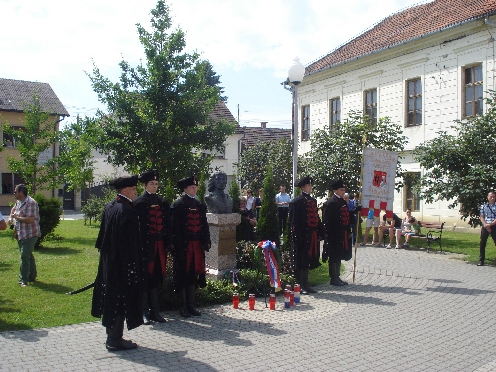 Zrinski guard - historical military unit from Čakovec, northern Croatia (16th century), at Nikola VII Zrinski, Ban (Viceroy) of Croatia, monument in Donja Dubrava village (Međimurje County)